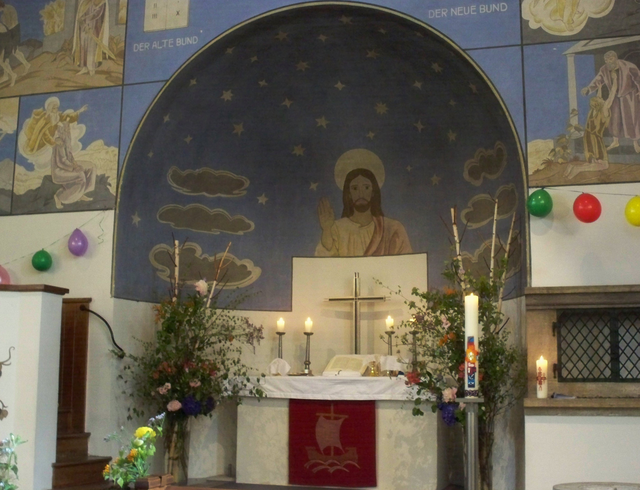 Gauting, Bavaria, Christuskirche, altar